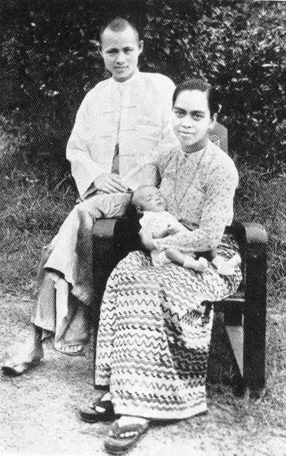 Bogyoke Aung San, Daw Khin Kyi and their first son Aung San Oo